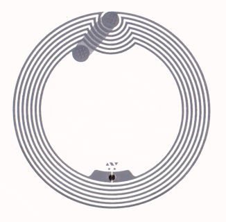 NFC Tag with 144 bytes